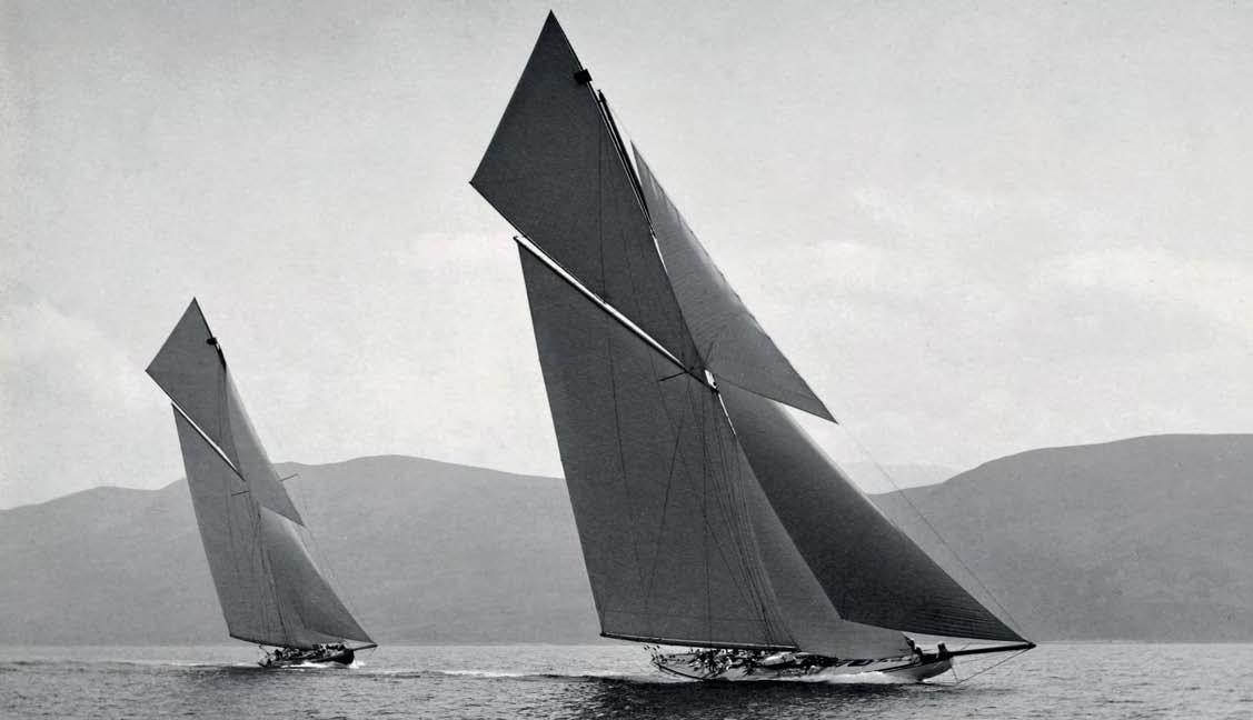 Close-hauled speed test of Shamrock I & Shamrock II in 1901.